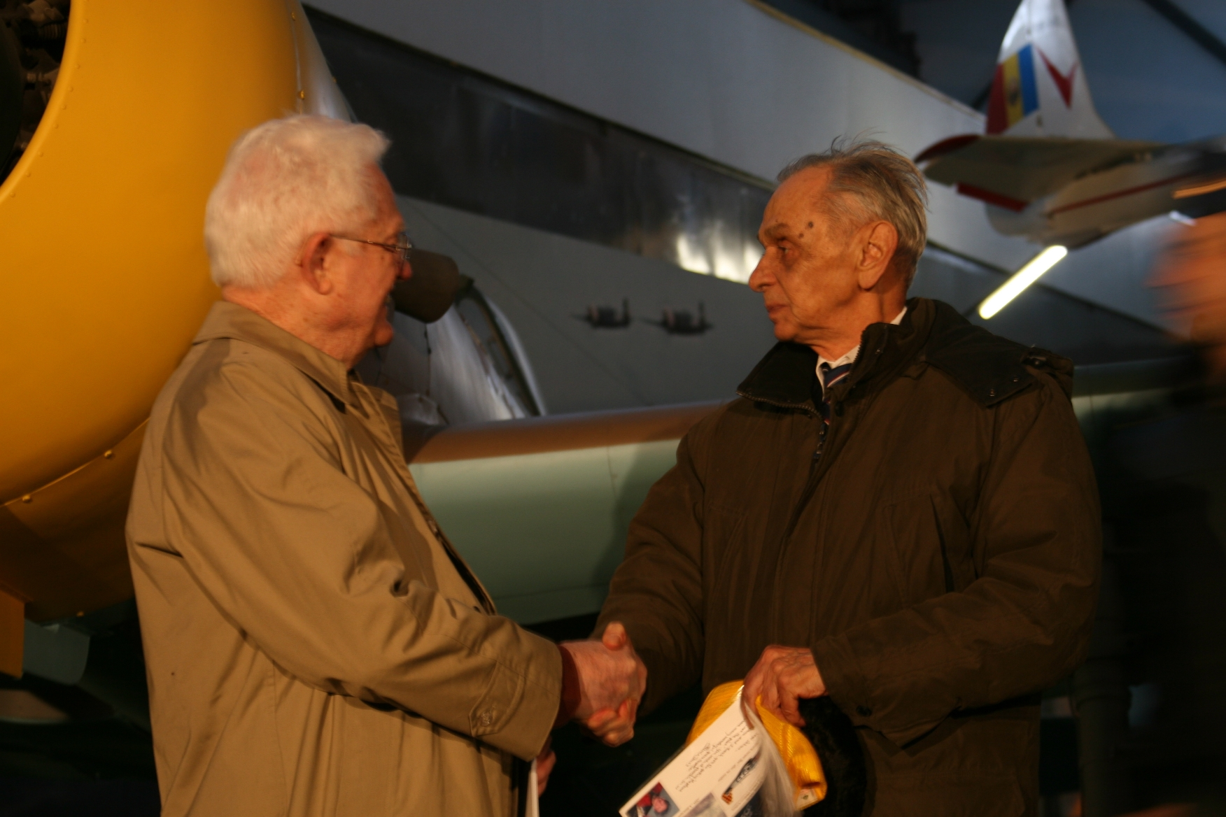 Air Flotilla General (R) Ion Dobran and Colonel (R) Barrie Davis.